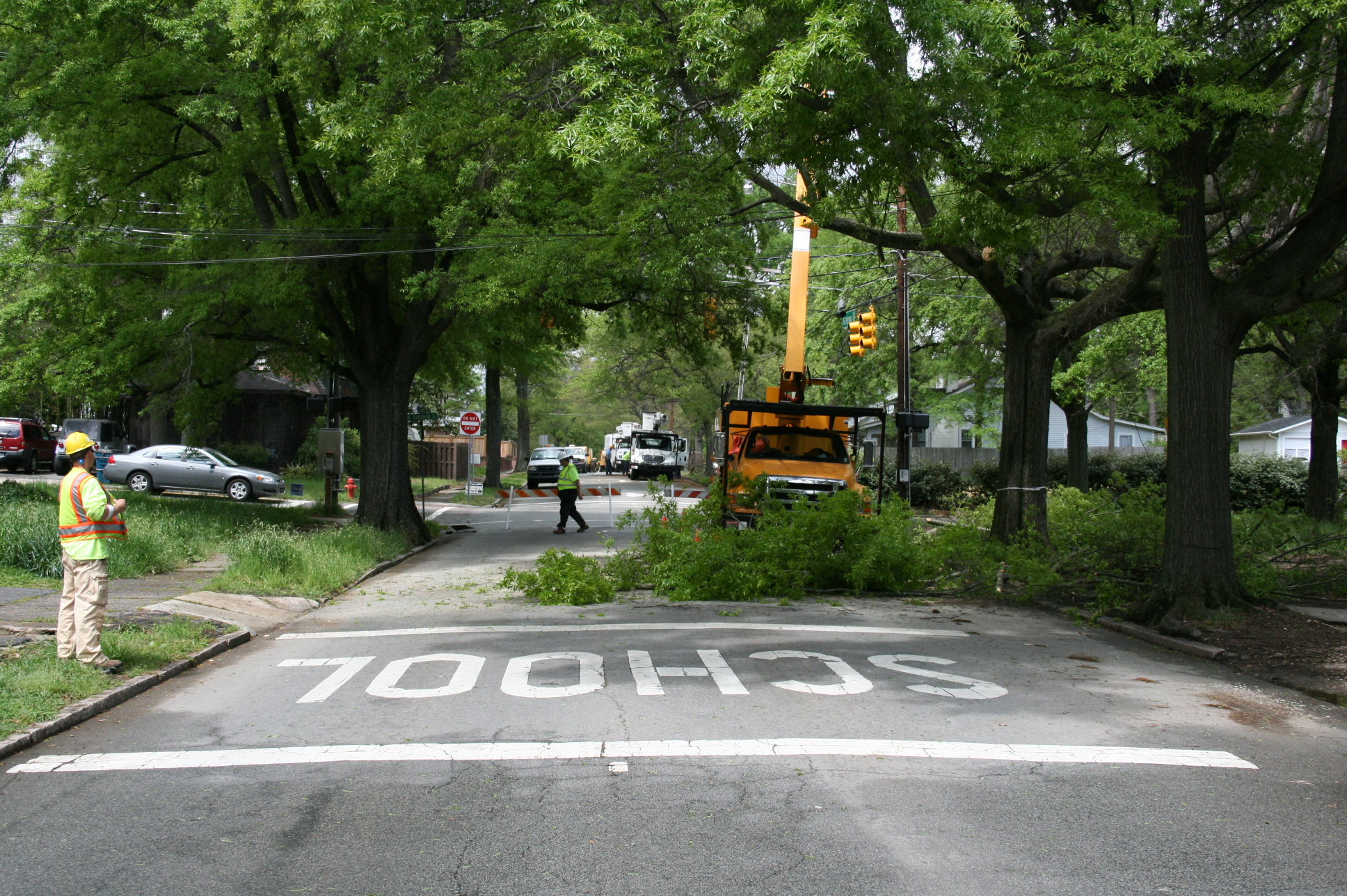 A massive tree trimming operation in progress on Gregson Street in Durham, North Carolina.